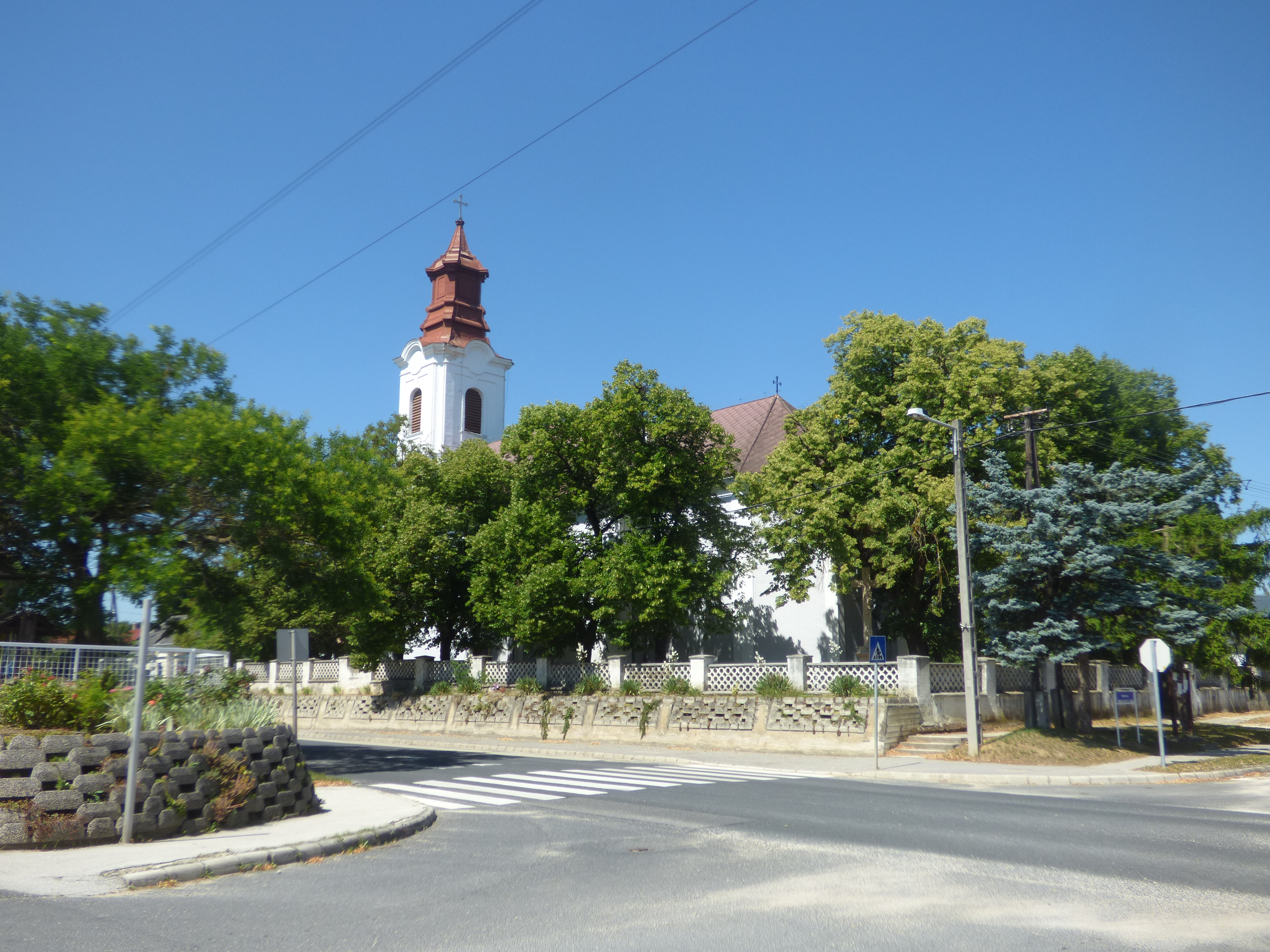 Márkó központja